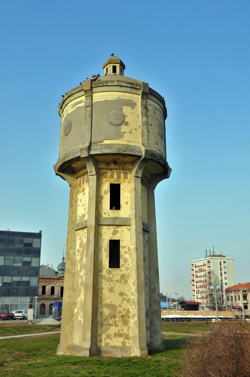 Tower at square.